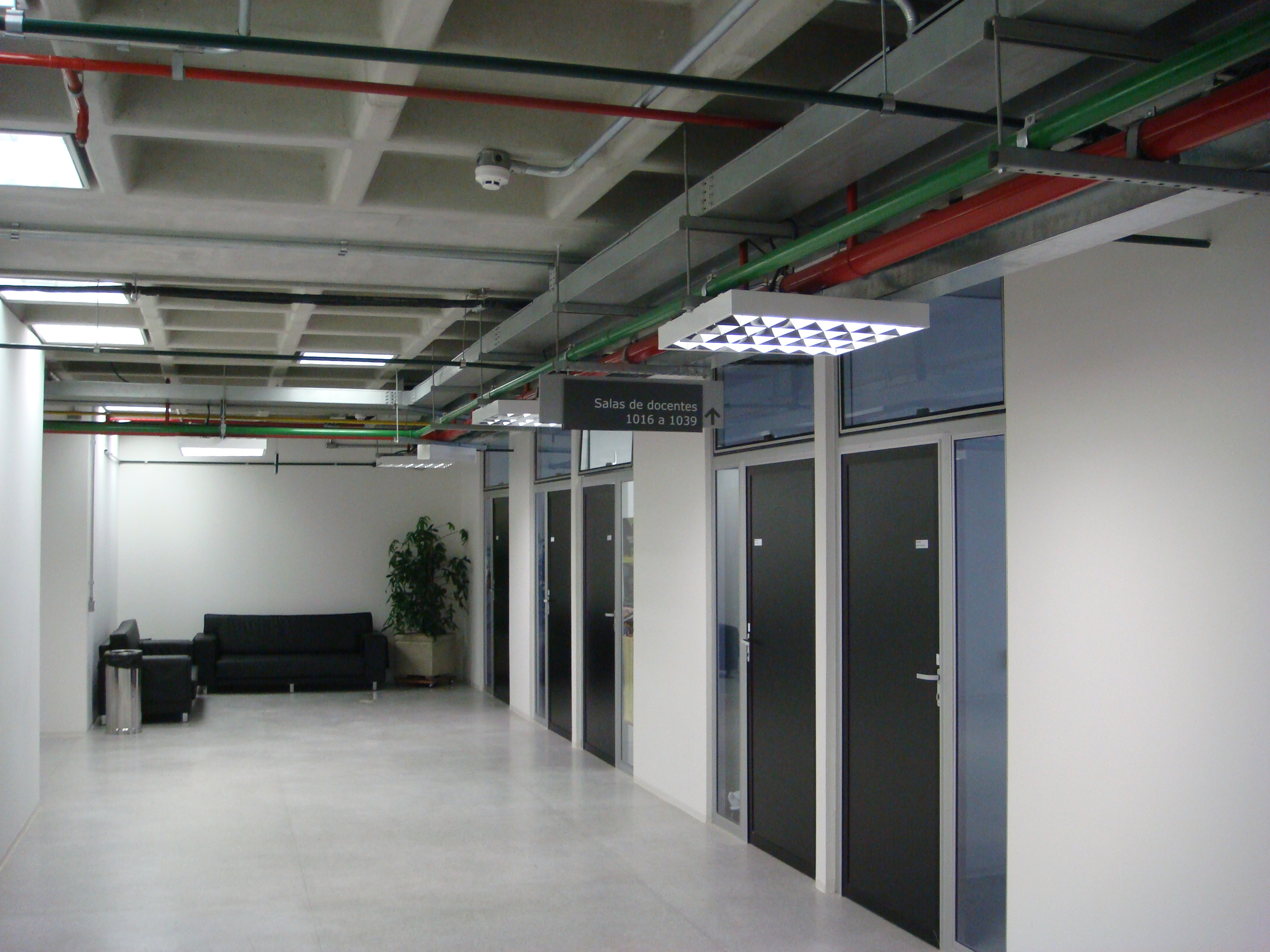 View of a corridor on the 10th floor of Block B.